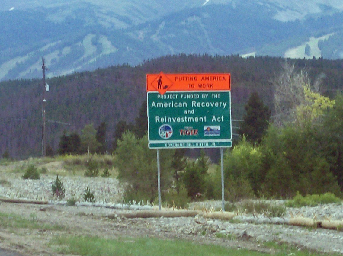 Sign for a construction project on Colorado State Highway 9 outside of Breckenridge, Colorado funded by the American Recovery and Reinvestment Act of 2009. Taken by self. DReifGalaxyM31 (talk) 23:45, 6 August 2010 (UTC)